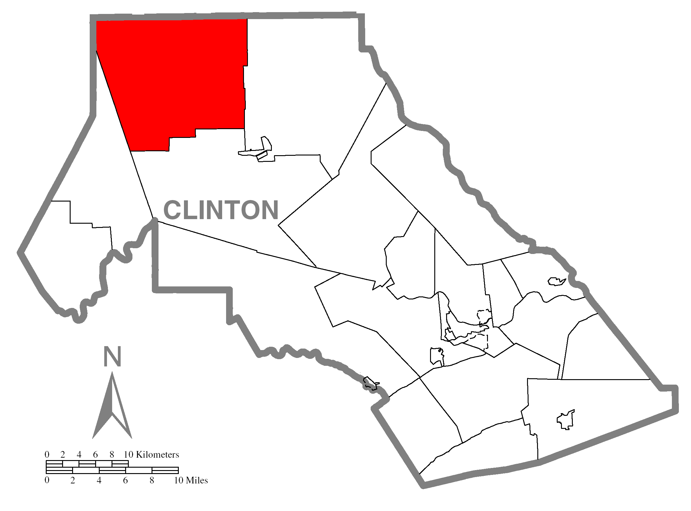 A map of Clinton County showing Leidy Township, Pennsylvania (alternate) highlighted on the map.